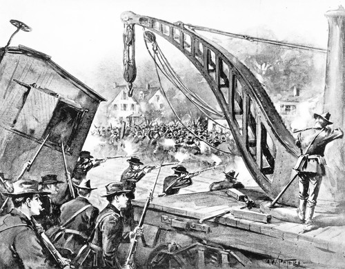 A Drawing of National Guard troops firing on Pullman strikers in 1894.